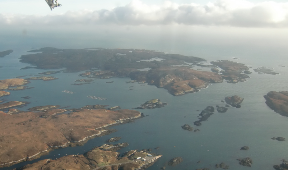 Wiay, Uist, Outer Hebrides from the air. Peter's Port on Eilean na Cille is in the foreground.